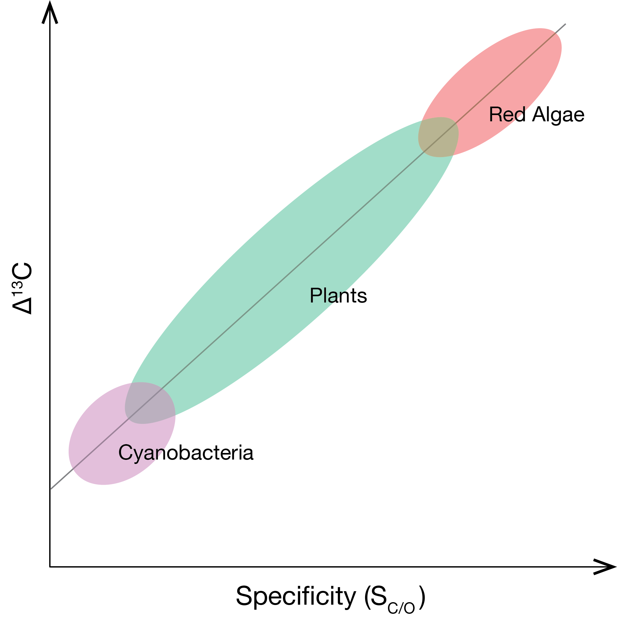 Specificity of RuBisCO for CO2 vs O2 determines the extent of C isotope fractionation.